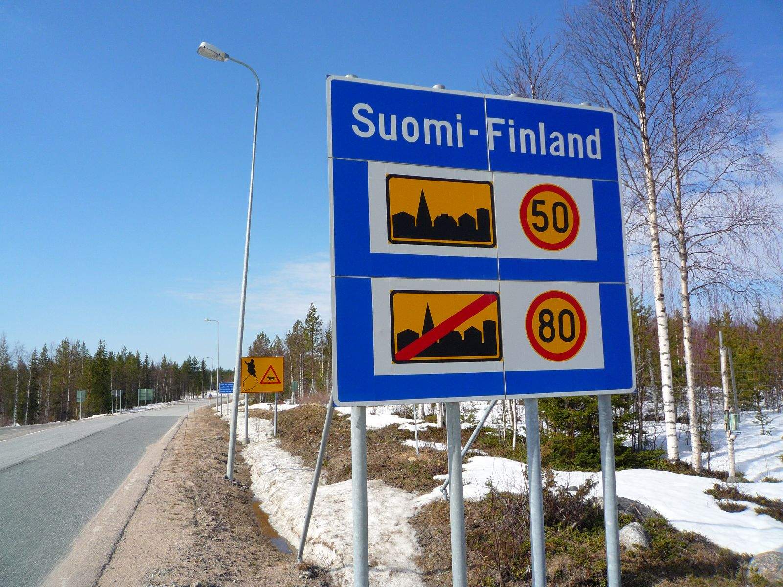 A road sign reminding the Russians of the Finnish speed limits, on the regional road 866 on the Finnish/Russian border just south of Kuusamo. The sign in the background is a reindeer warning for all of northern Finland.